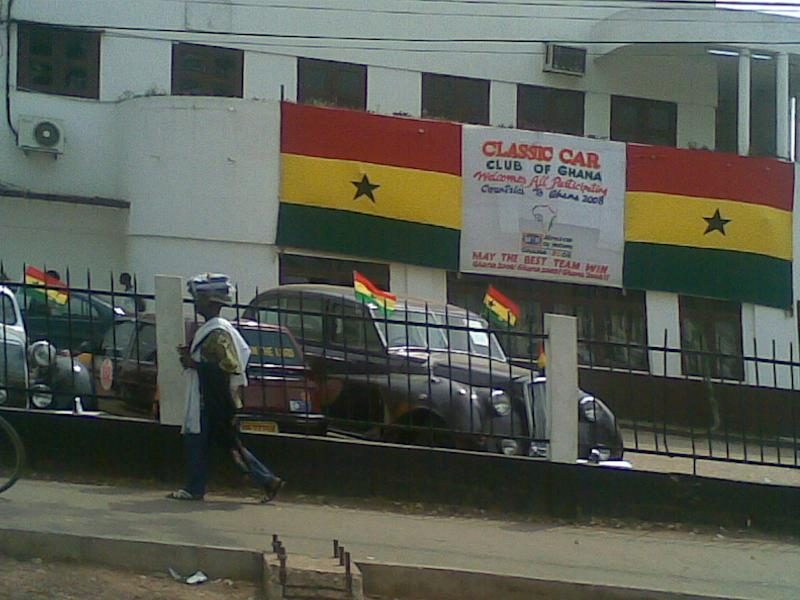 Classic Car Club of Ghana displaying some old cars with flags of Ghana close to Kwame Nkrumah Circle in Accra. Today 20th January 2008 is the opening ceremony for the MTN African Cup of Nations (Ghana 2008) tournament. Photo by Oluniyi David Ajao *Can be reused only when attribution is provided.